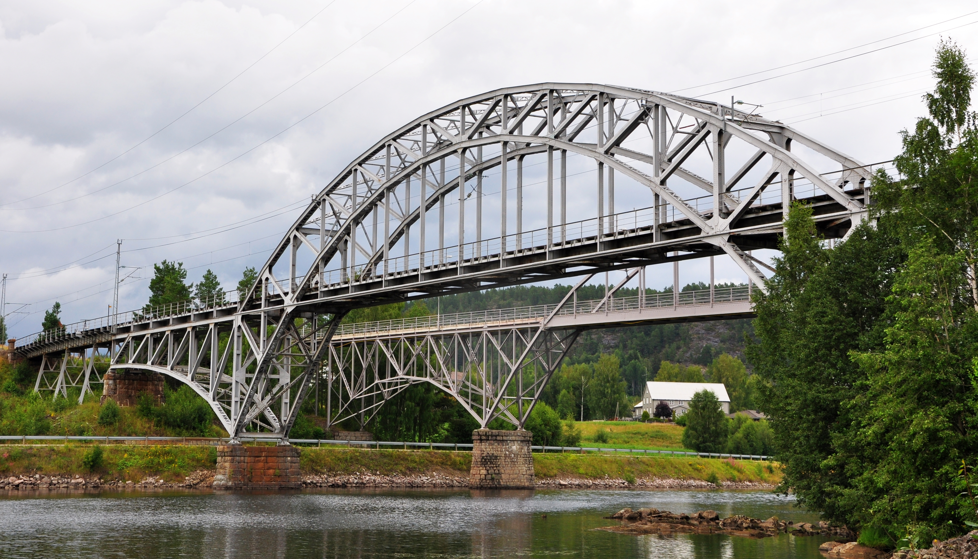 Railway and road bridges crossing the Bandak canal, Lunde, Telemark, Norway